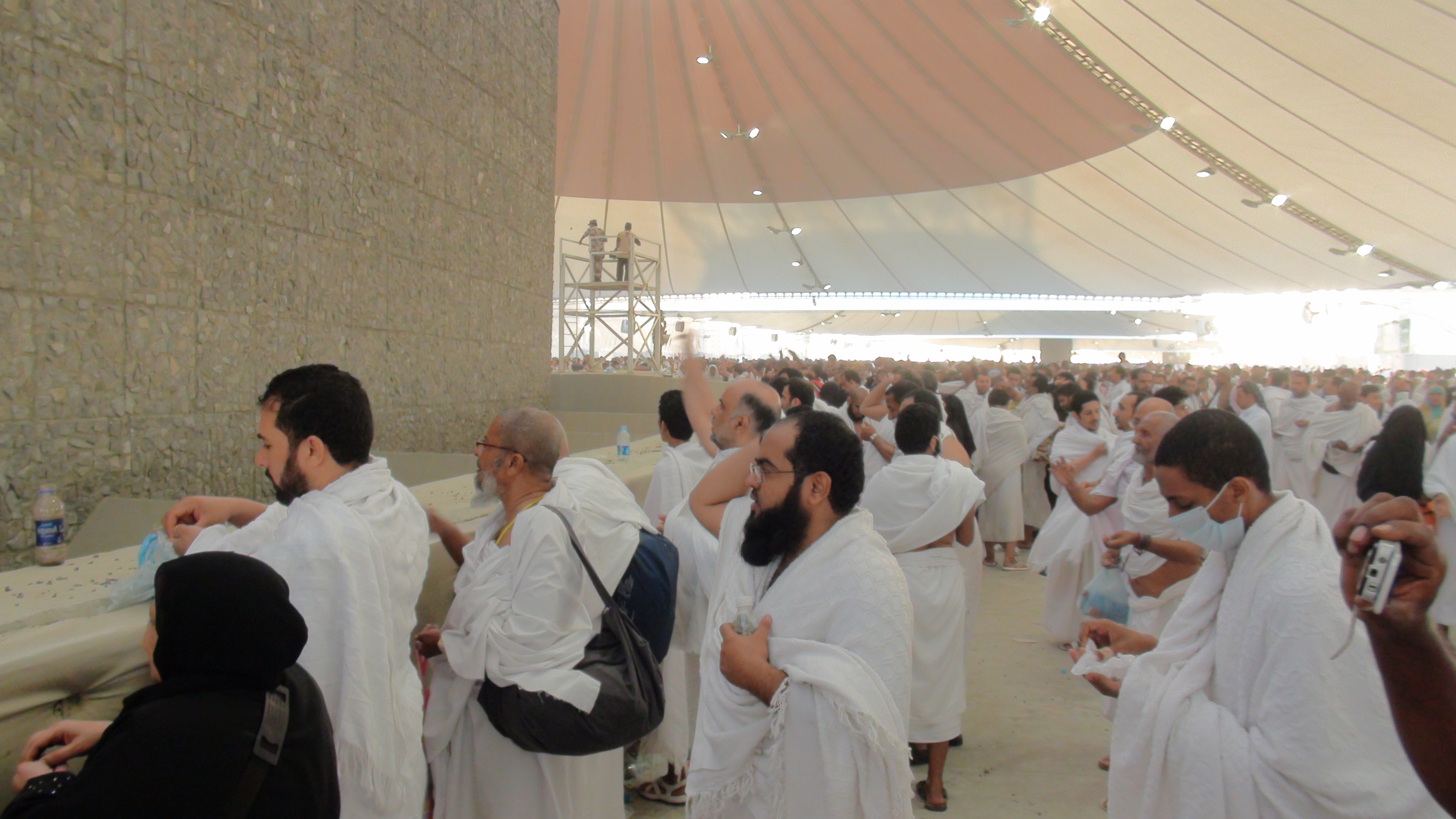 AL Jamarat in mina